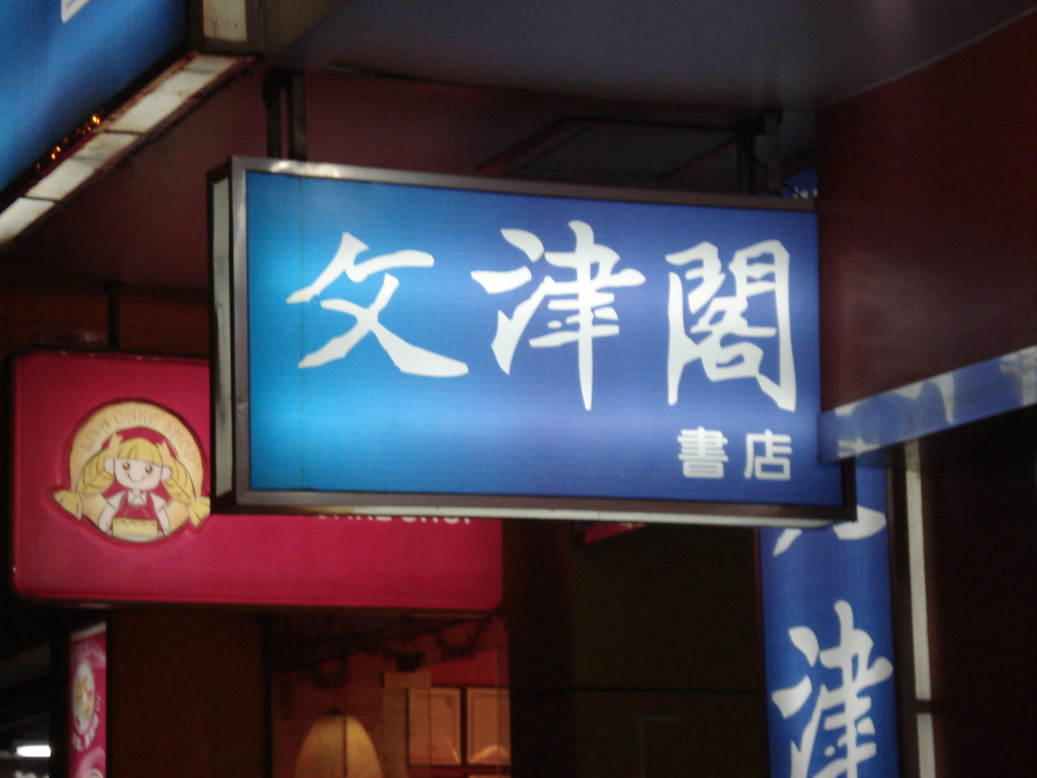 the gate of Wenjinge Store in Guangzhou, China